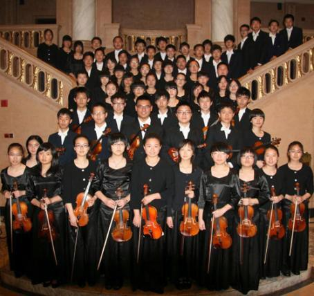 This is a photo of Shanghai Nanyang Model High School Symphony Orchestra.